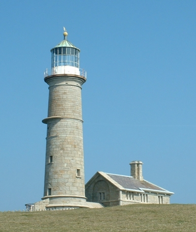 The Old Light, Lundy